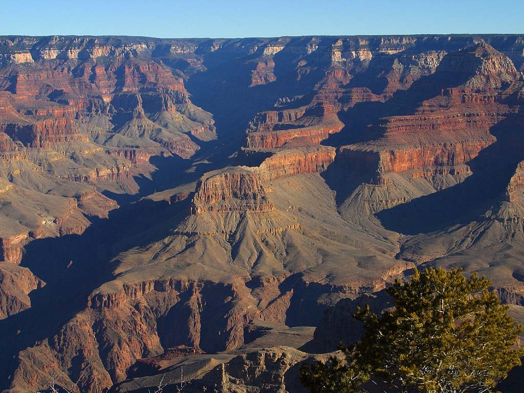 Grand Canyon - 2003-01-18 Mather point, or Rim Trail (?) at the Grand Canyon. (view centered on Sumner Butte, at southeast terminus of Bright Angel Canyon, intersecting with Granite Gorge-(on the Tonto Platform) The Bright Angel Canyon is left, Zoroaster Canyon is right-(Demaray Point on west edge; canyon out of view), and above it is Brahma Temple. (Note)--Brahma Temple is composed of Coconino Sandstone, buff, white; below, the "slope-former", Hermit Shale, and below it are the slopes of 'redbeds' Supai Group, above the vertical cliffs of Redwall Limestone, (Sumner Butte's peak is Redwall Limestone).